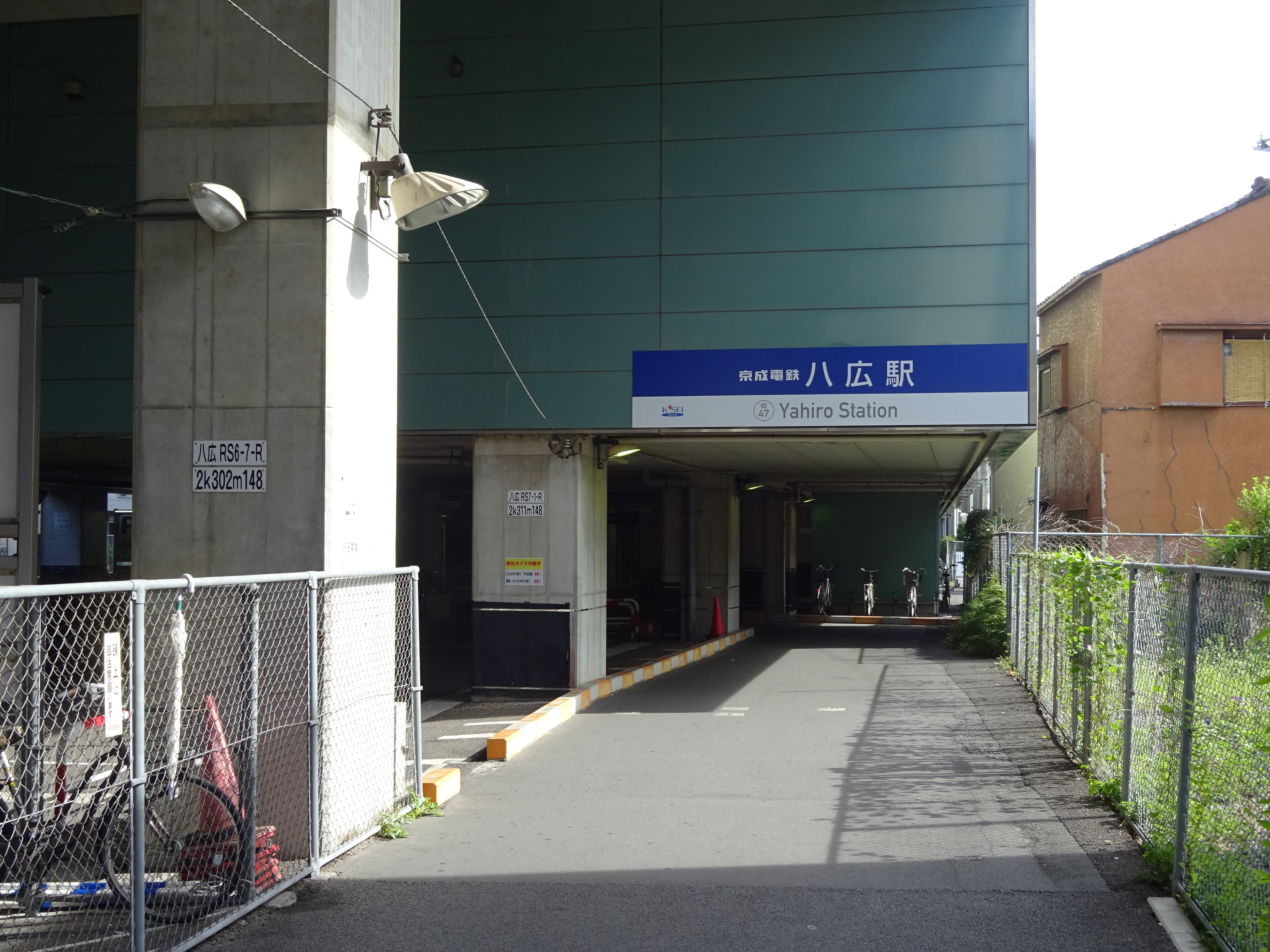 South entrance of Yahiro Station